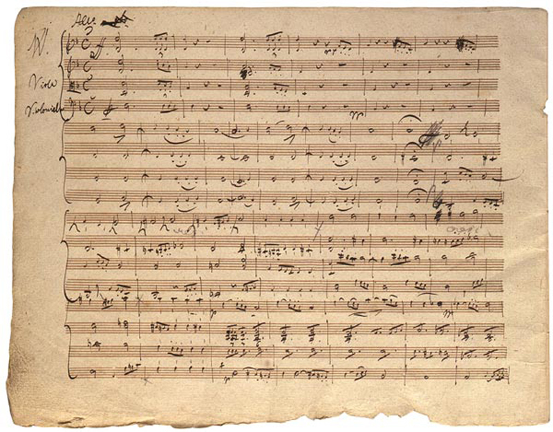 Death and the Maiden quartet manuscript